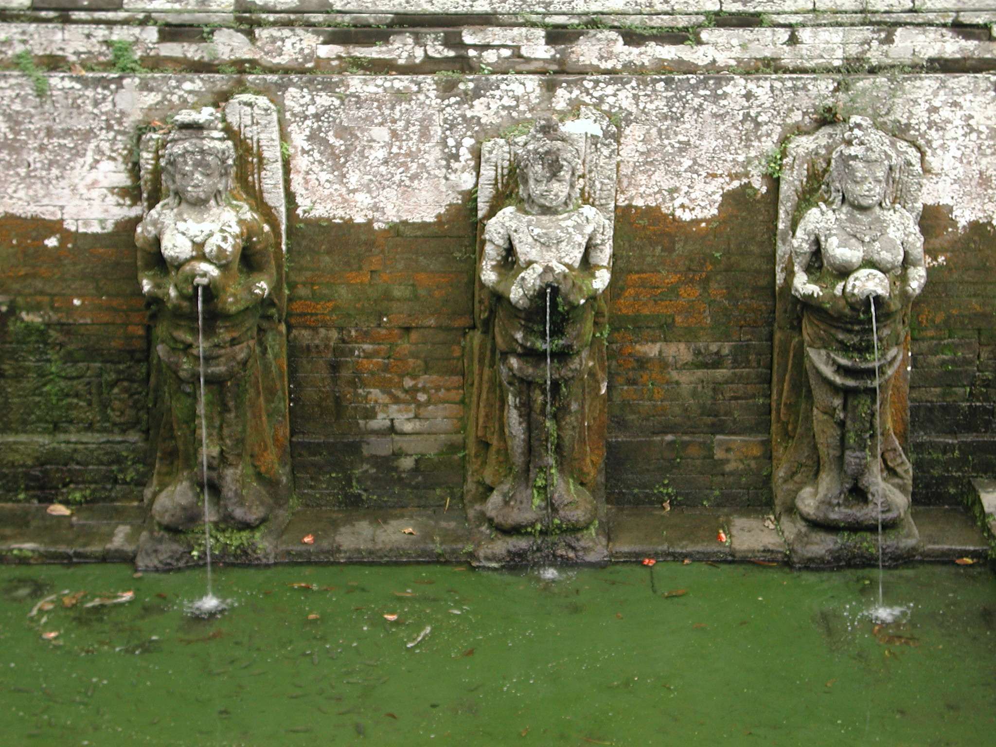 A close-up of the 'Fountain' Figures at the Goa Gajah complex's Bathing Temple near Ubud, Bali, Indonesia